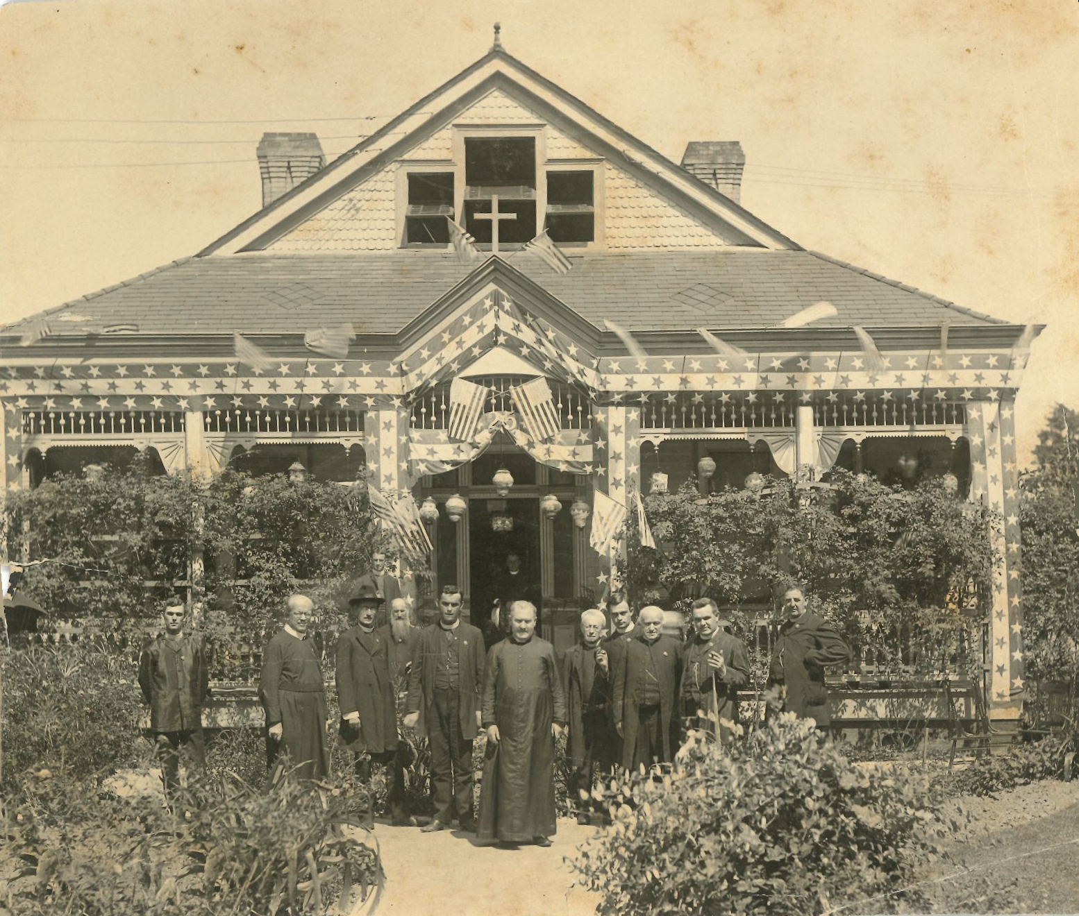 This photo was taken in celebration in honor of Rev. Charles Brockmeier's Silver Jubilation in June 1905